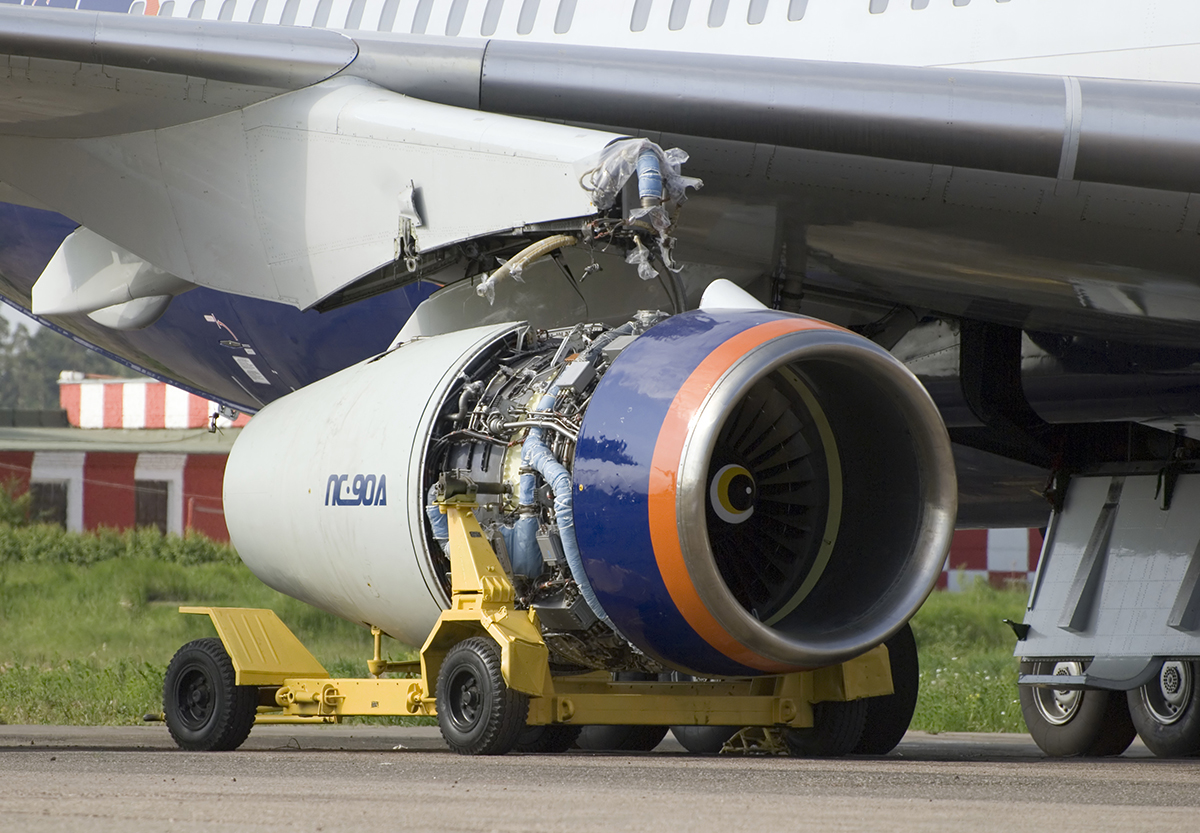 Engine Il-96 "Aeroflot".